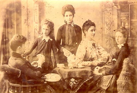 Photograph of May Vale and her four sisters Left to right - Trissie (Beatrice), Faith, May, Grace, Elsie guess at 1890